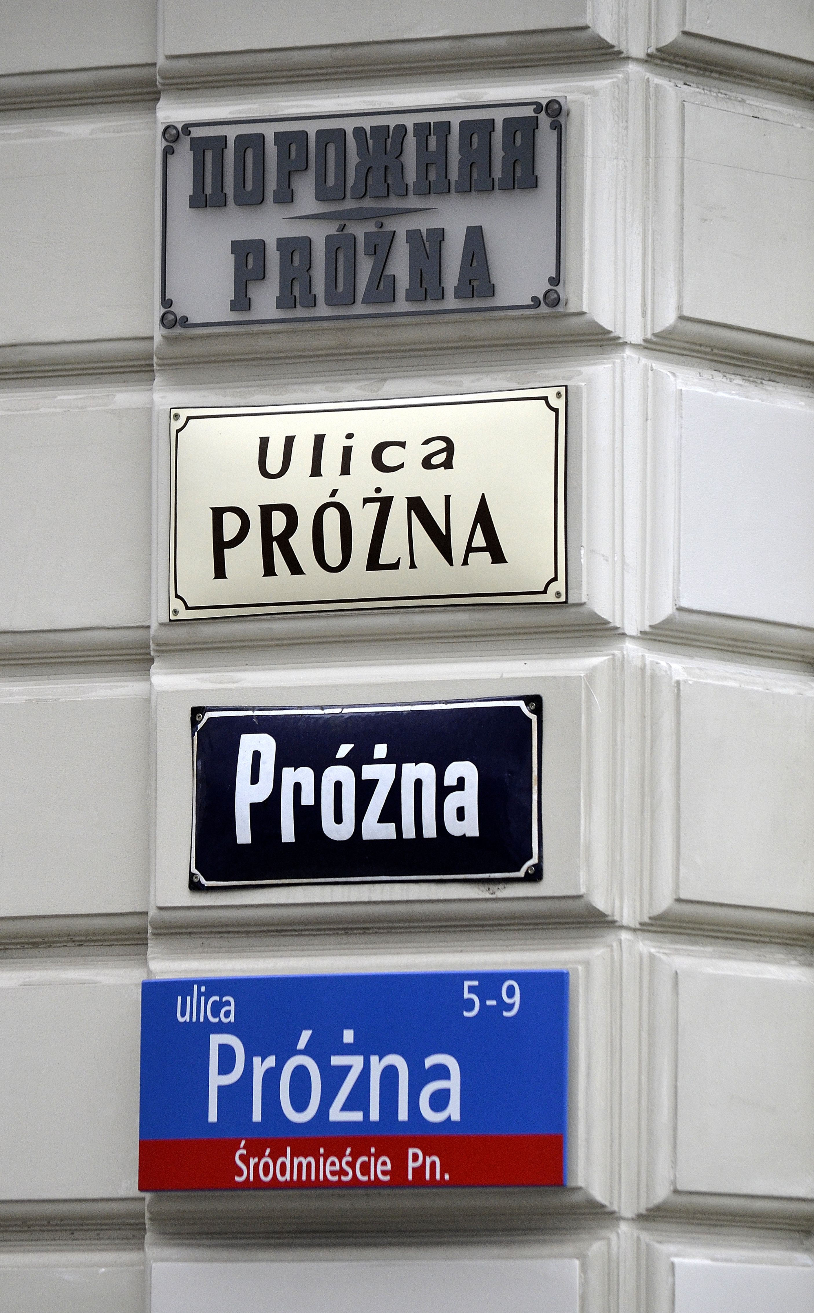 Plaques at 9 Próżna Street in Warsaw